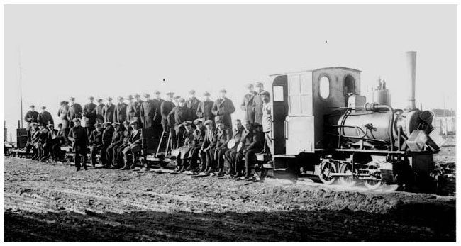 The Tren del Fin del Mundo while carrying some of the staff of the Ushuaia prison in Tierra del Fuego. The jail would be closed in 1947.